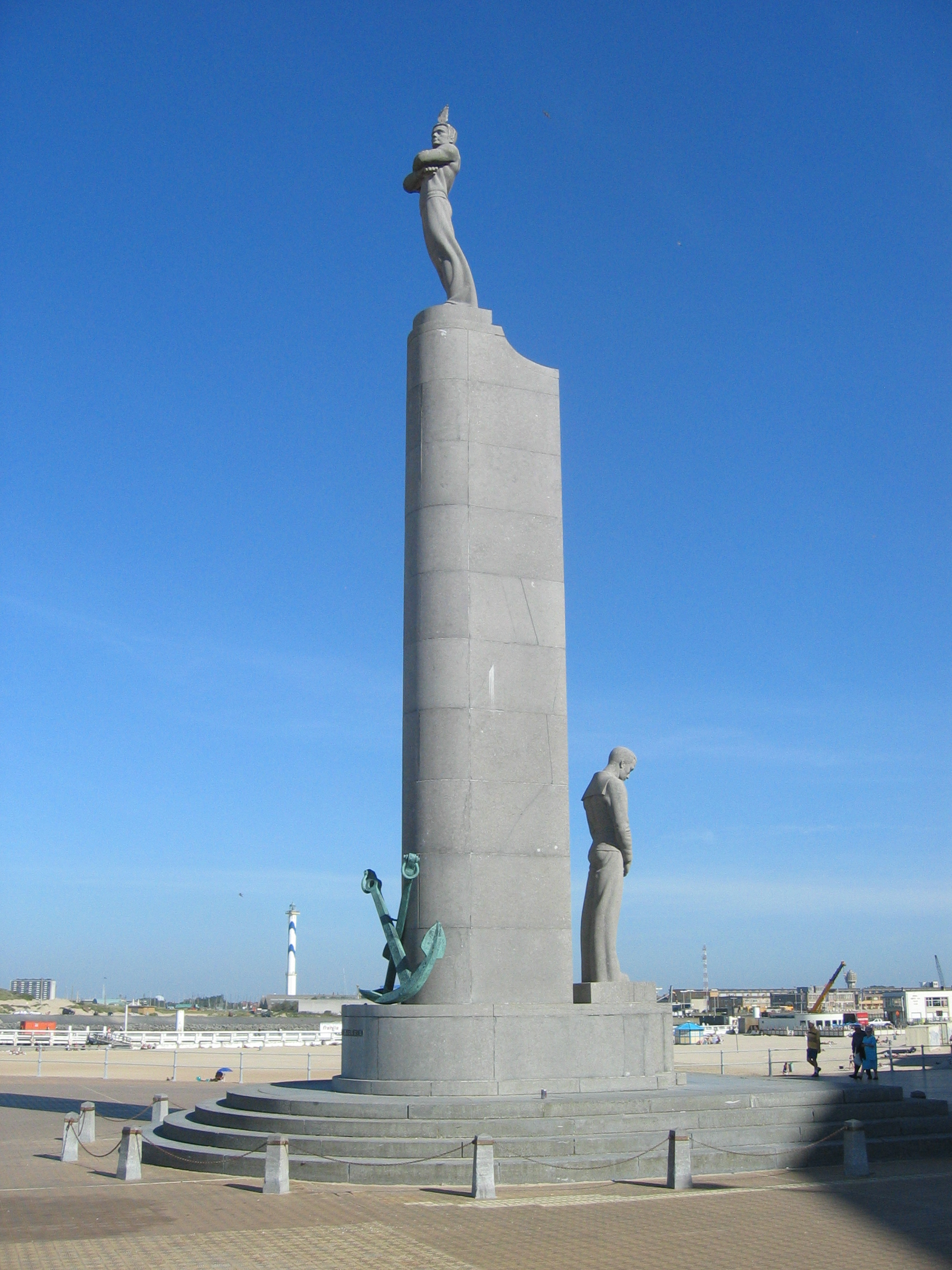 The Seafarers' Monument in Ostend, made by Willy Kreitz in 1956.